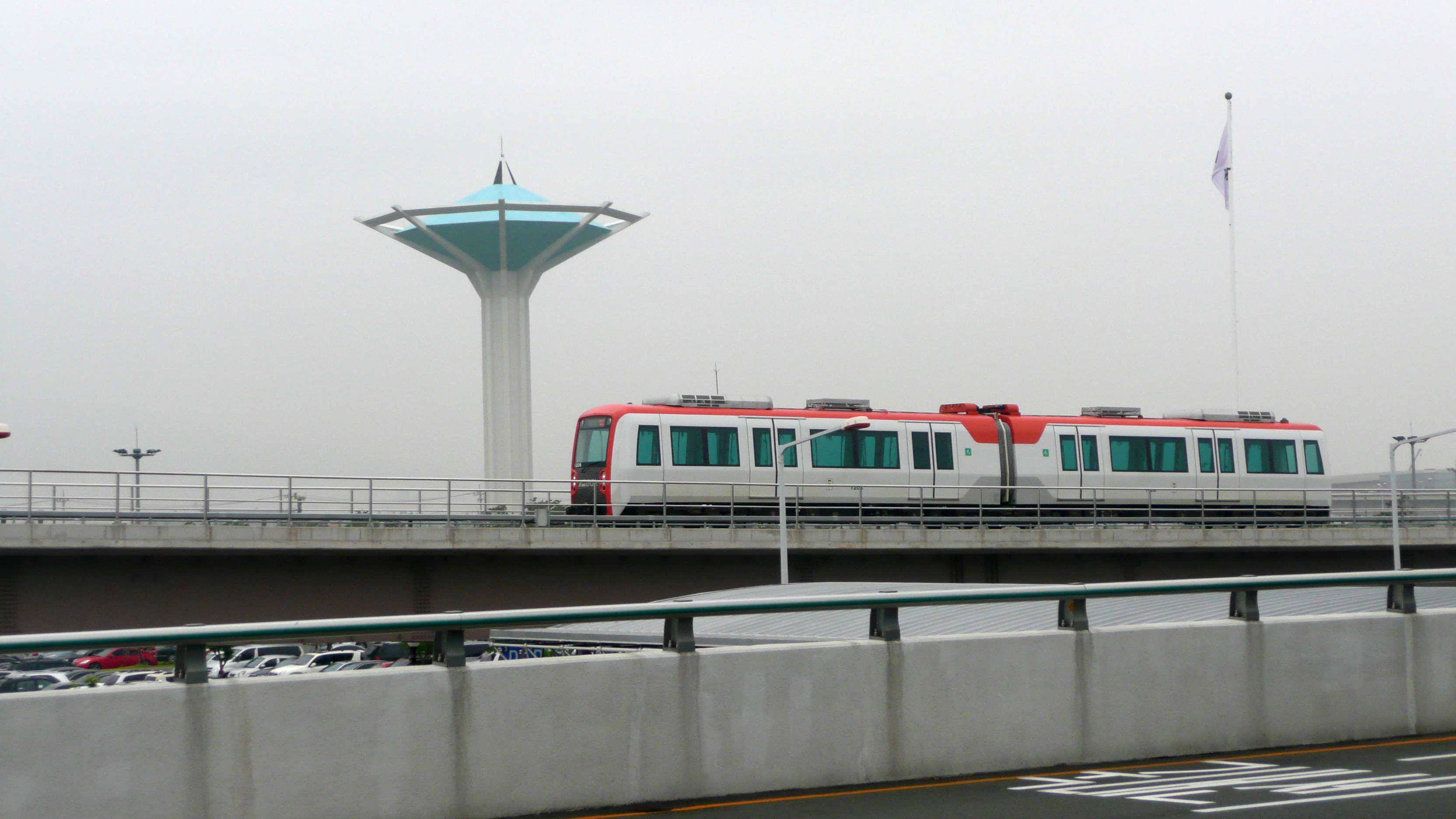 Airport Gimhae, Busan, South Korea